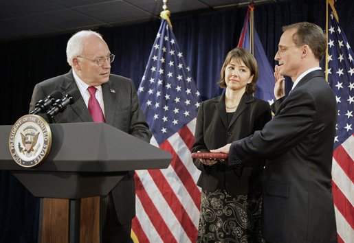 Vice President Dick Cheney swears in Steve Preston as the Administrator of the Small Business Administration during a ceremony at the Offices of the Small Business Administration in Washington, D.C. Preston's wife, Molly, holds the Bible.